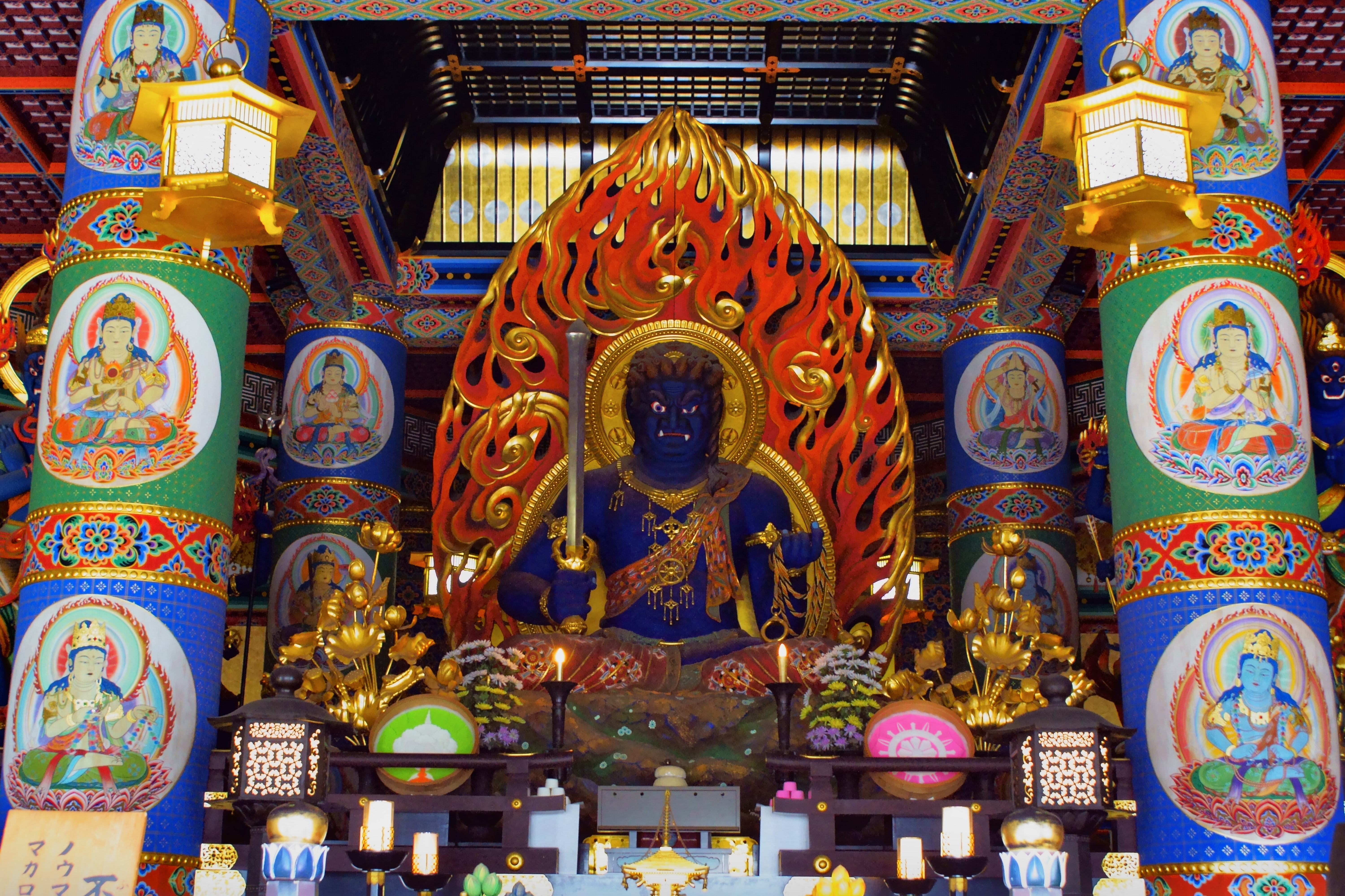 Acala is one of the Buddha who makes an expression of anger because human beings are stupid, and drags humans into the right path by force.